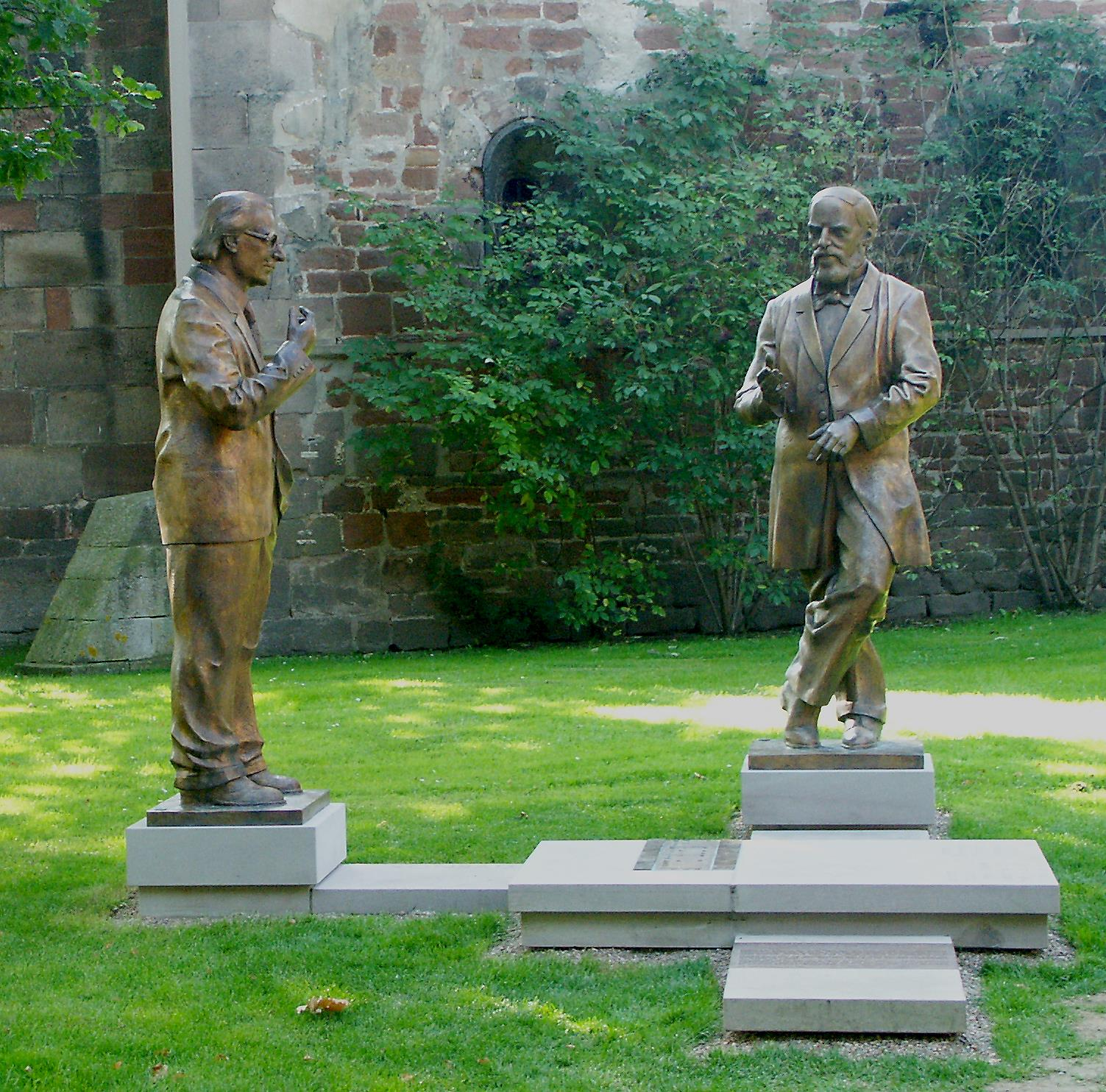 Memorial of Konrad Duden and Konrad Zuse. Konrad Duden (right), German founder of the well-known German language dictionary bearing his name. Konrad Zuse (left), German inventor of the computer. Both former citizens of Bad Hersfeld. The memorial is situated in monastery sector of Bad Hersfeld